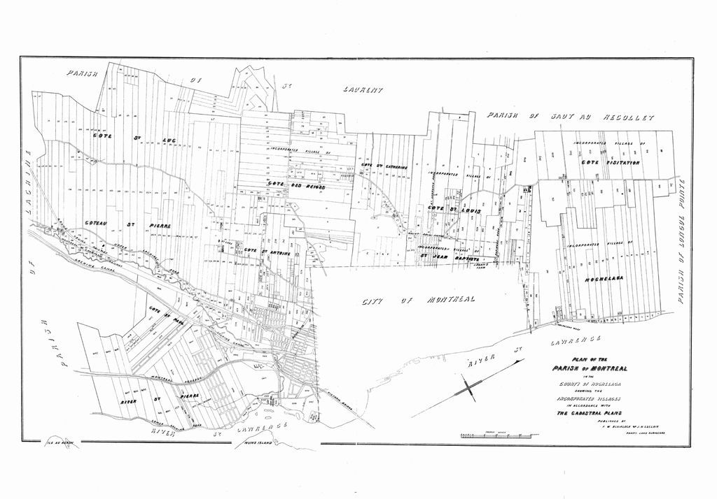 (Text on the original map) Plan of the Parish of Montreal in the County of Hochelaga showing the Incorporated Villages in accordance with the cadastral plans